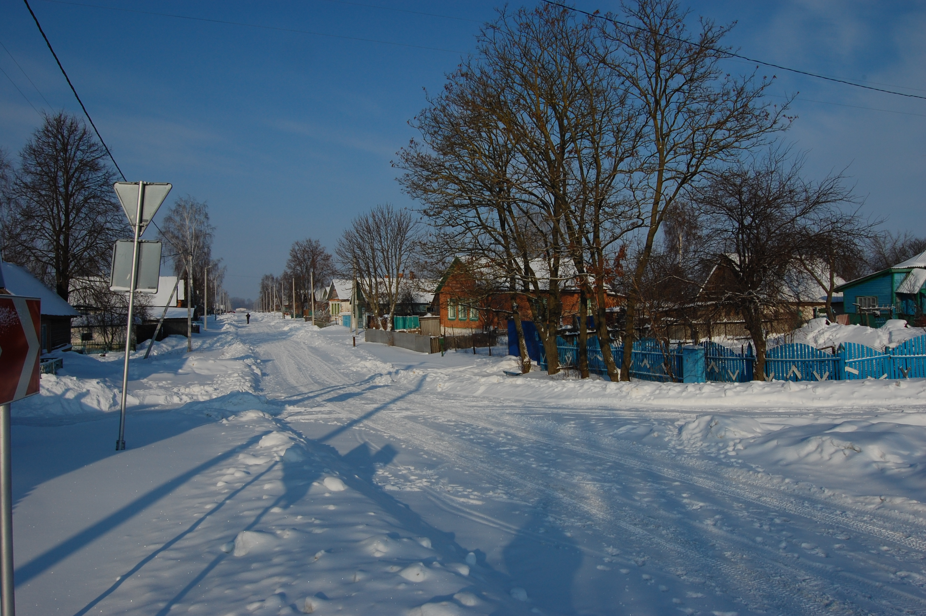 Embankment Street. Tsyerakhowka, Belarus. Беларуская (тарашкевіца): Вуліца Ўзьбярэжная. Церахоўка, Беларусь.